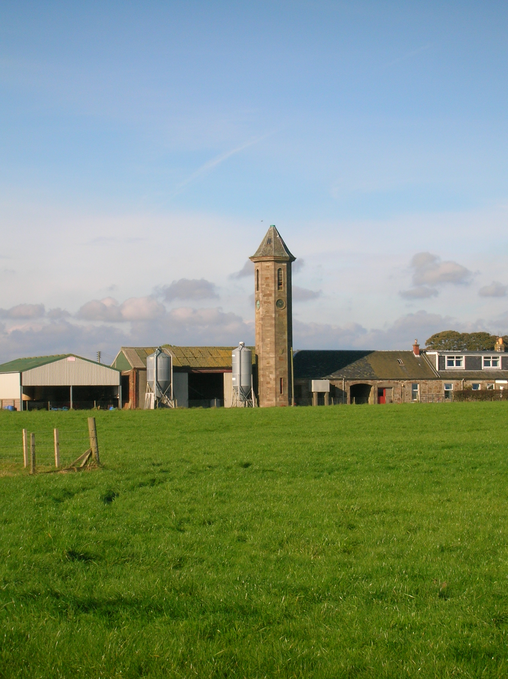 The clocktower at Girgenti Farm, North Ayrshire, Scotland. October 2007. Roger Griffith